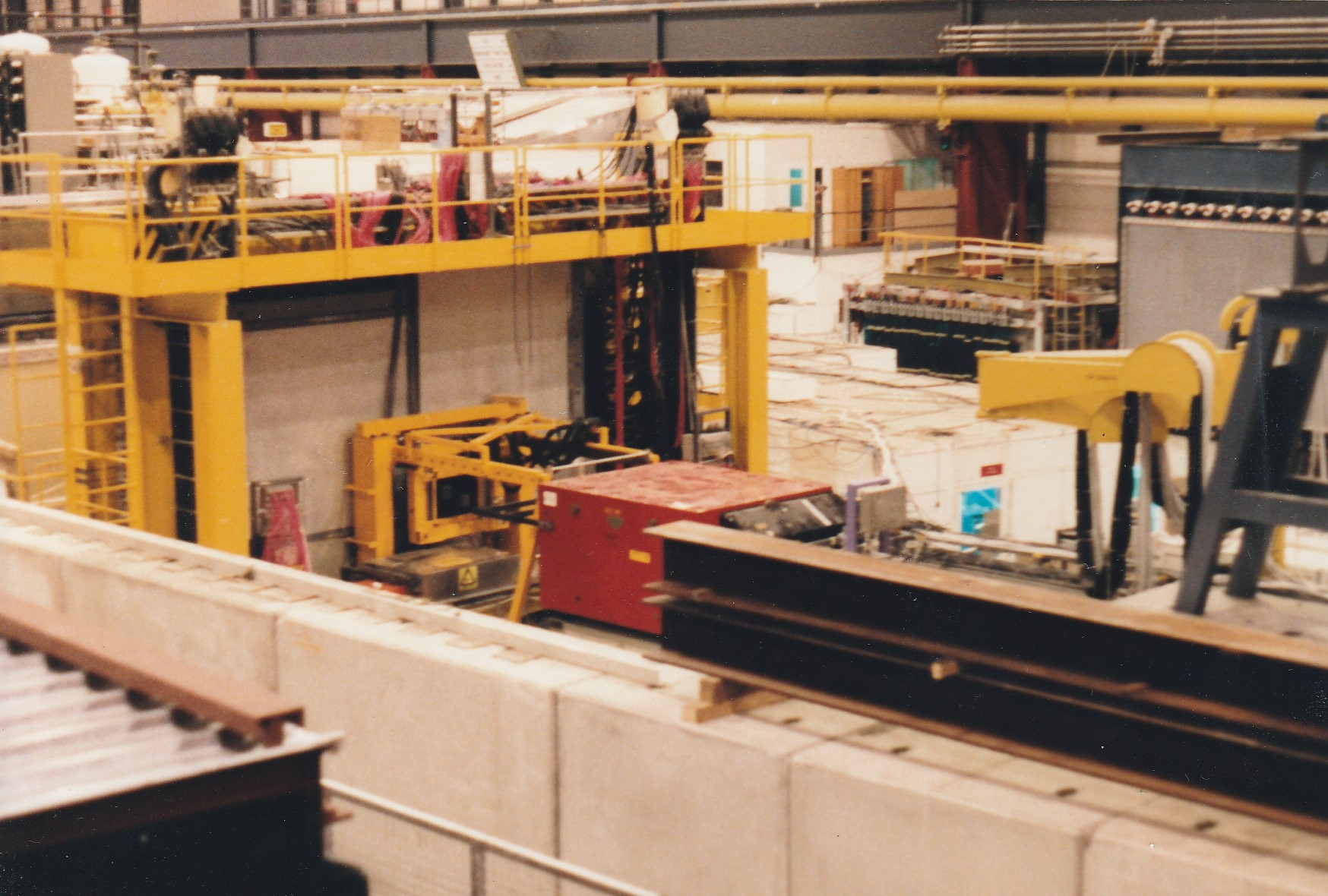 The WA70 calorimeter, viewed from the downstream end of the particle beam line.